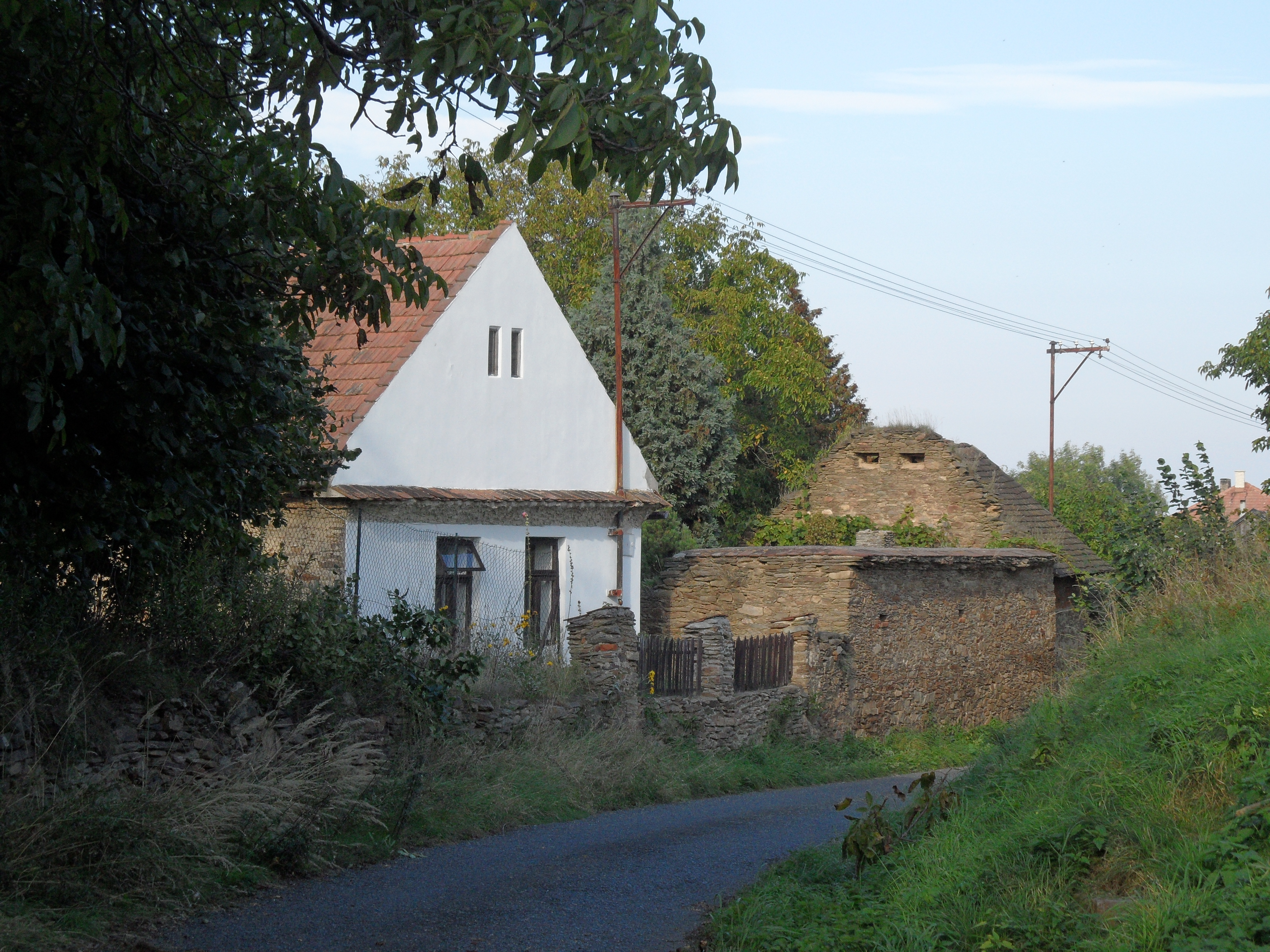 Zbudovice (Zbýšov) A. House along Minor Road, Kutná Hora District, the Czech Republic.